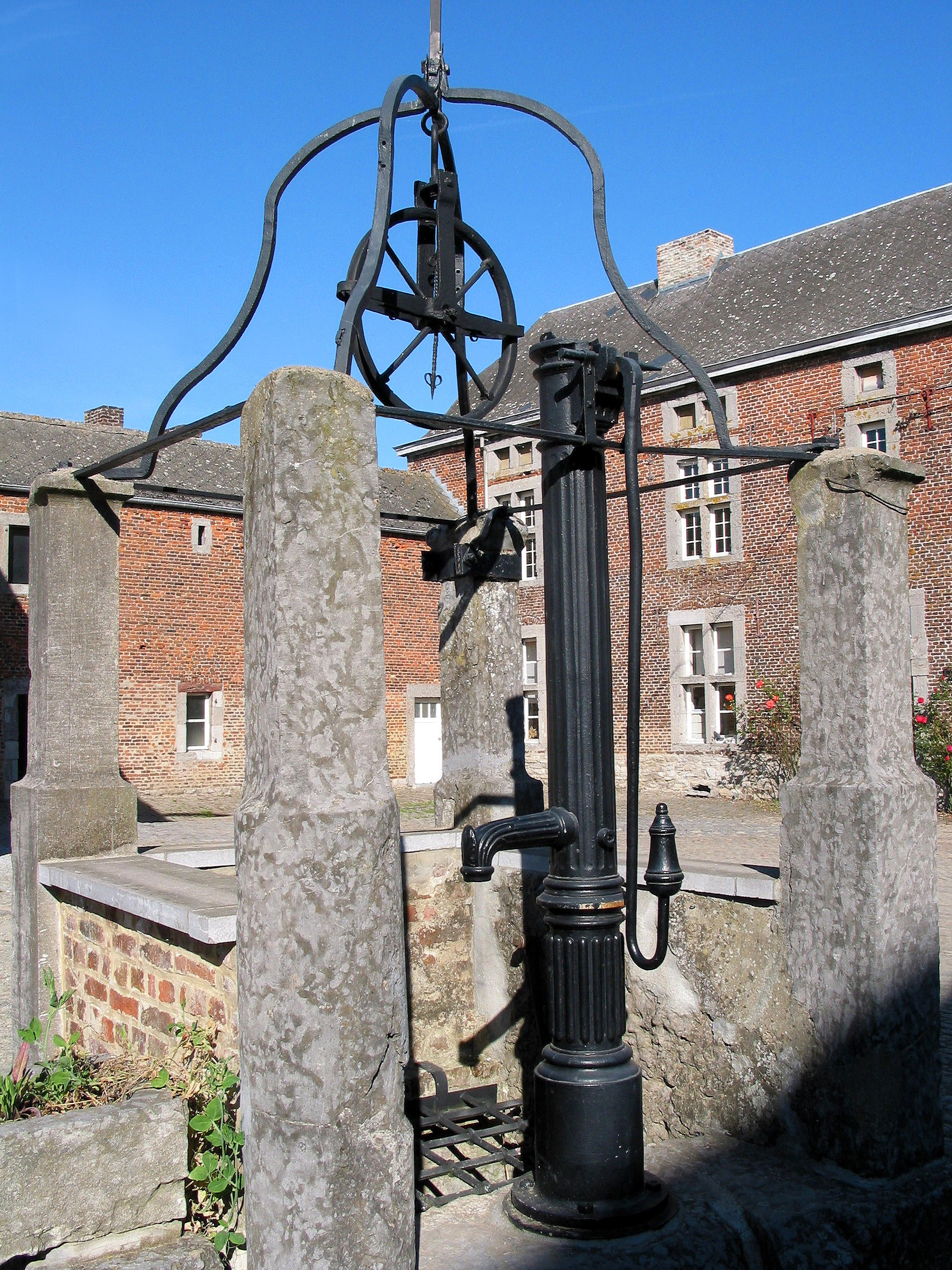 Burdine (Belgium), manual waterpump in cast-iron and Water well with pulley and coping.